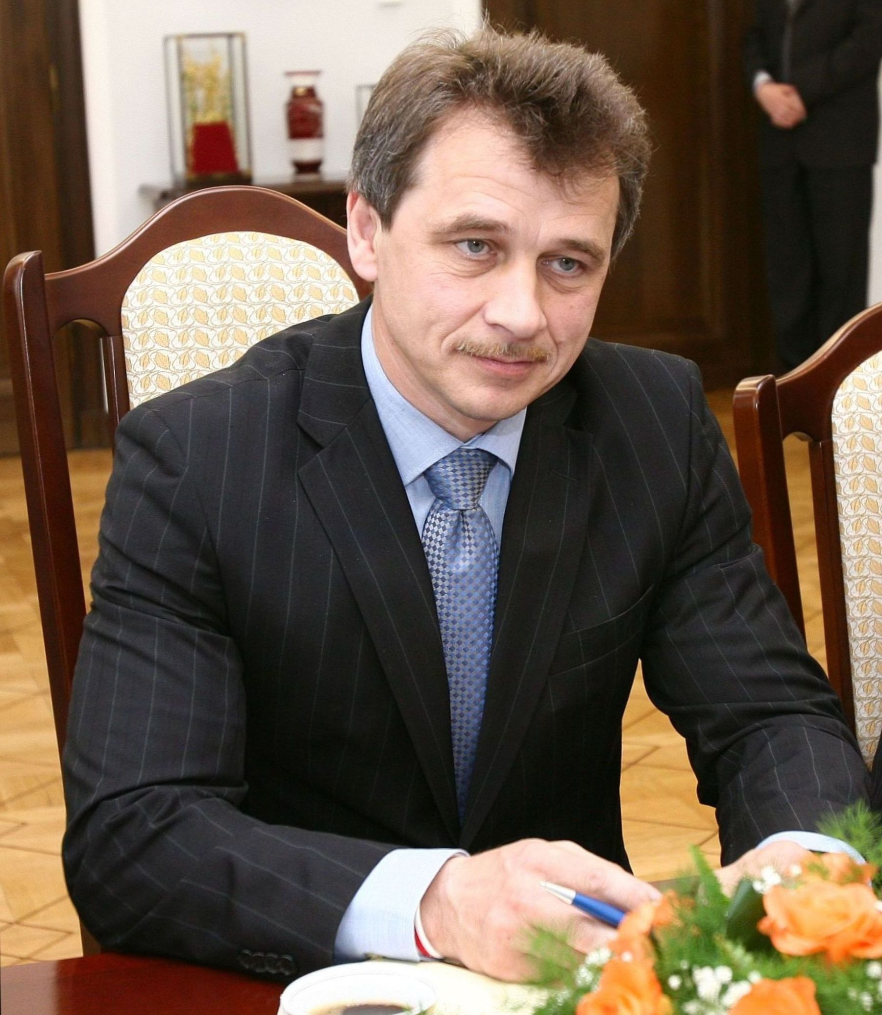 Anatoly Lebedko in the Polish Senate